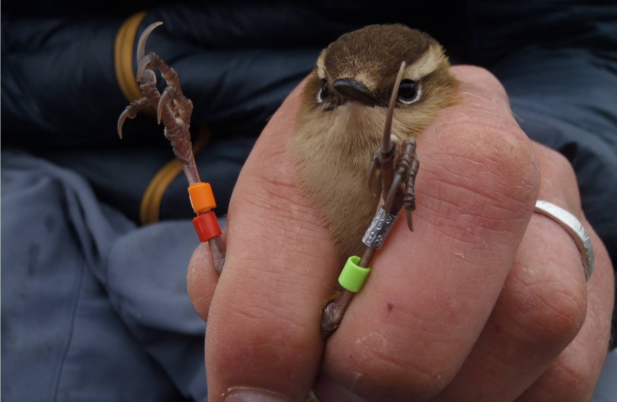 Rock wren with monitoring colour bands